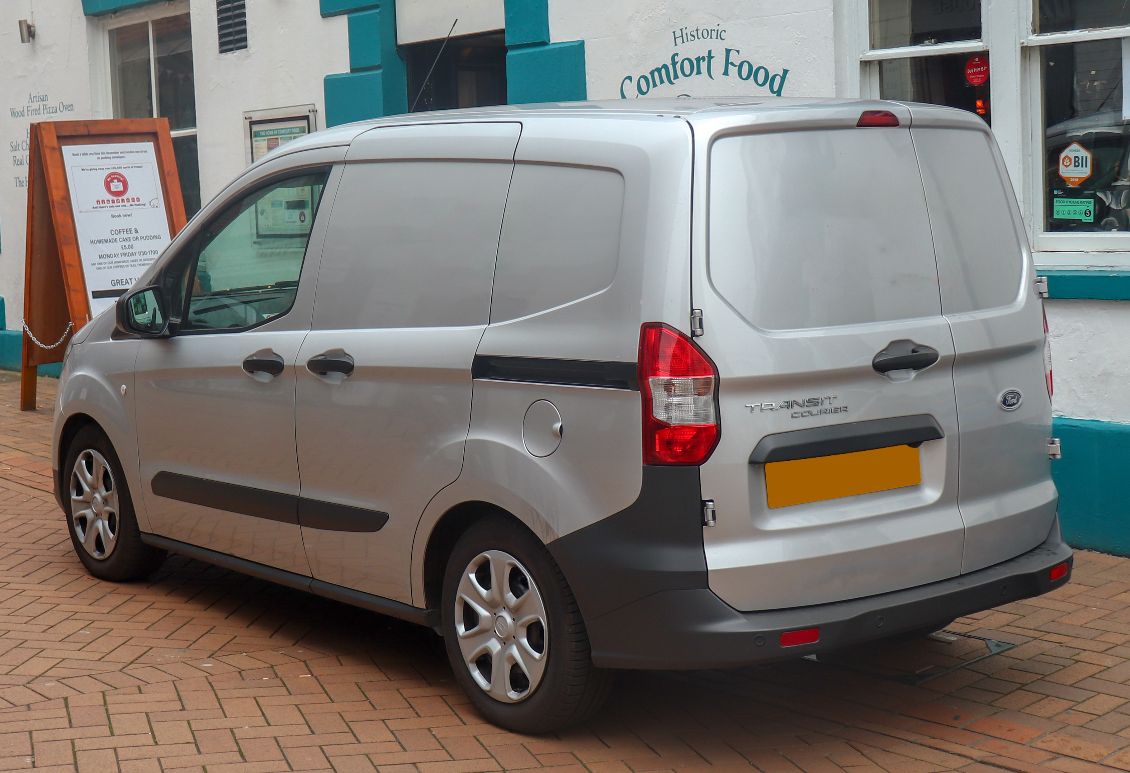 2018 Ford Transit Courier Trend facelift 1.5 Rear Taken in Banbury, Oxfordshire